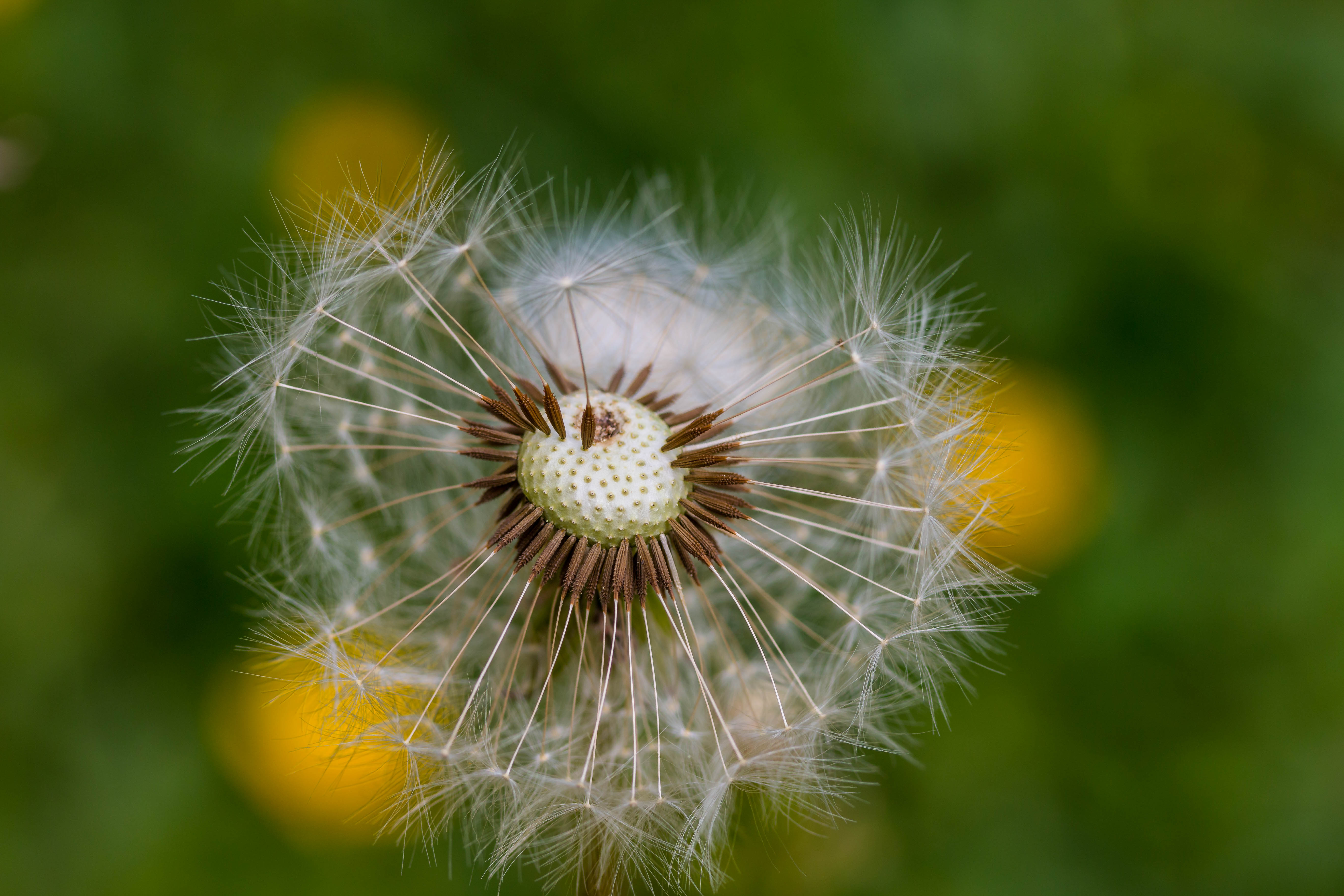 Dandelion